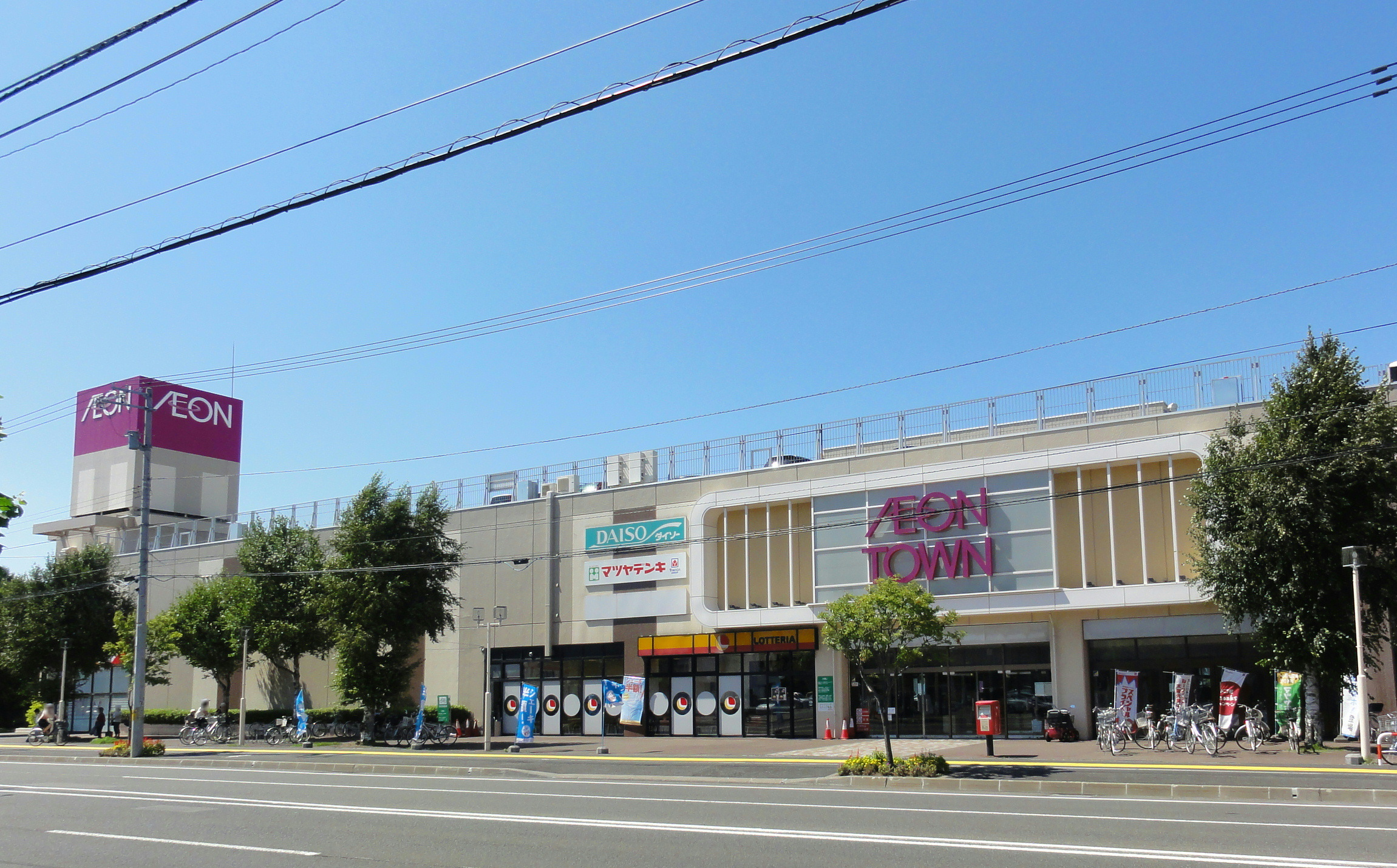 AEON TOWN Ebetsu Shopping Center (Ebetsu, Hokkaidō)